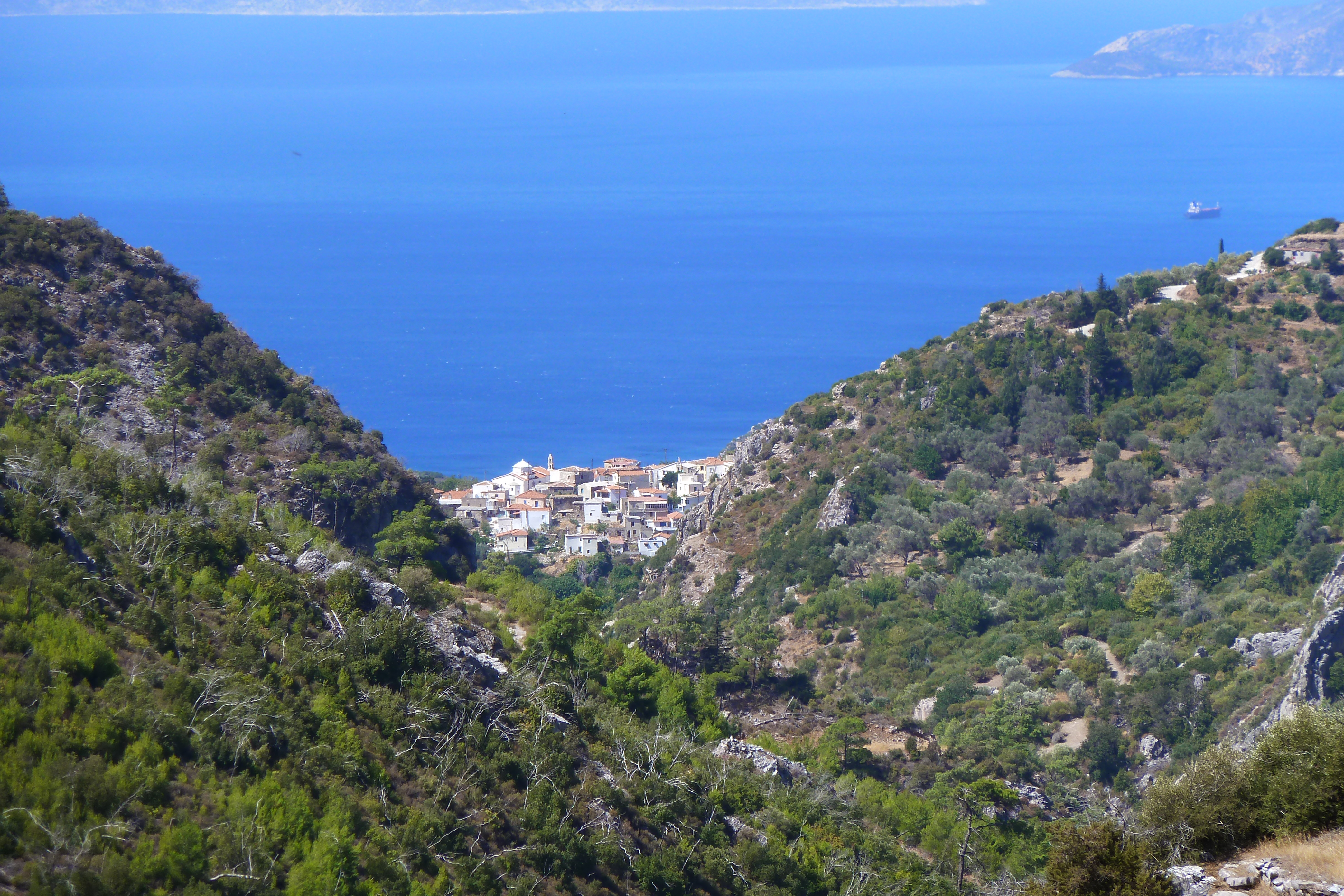 Neochori village on the Greek island of Samos - view from road Pyrgos-Karlovasi.